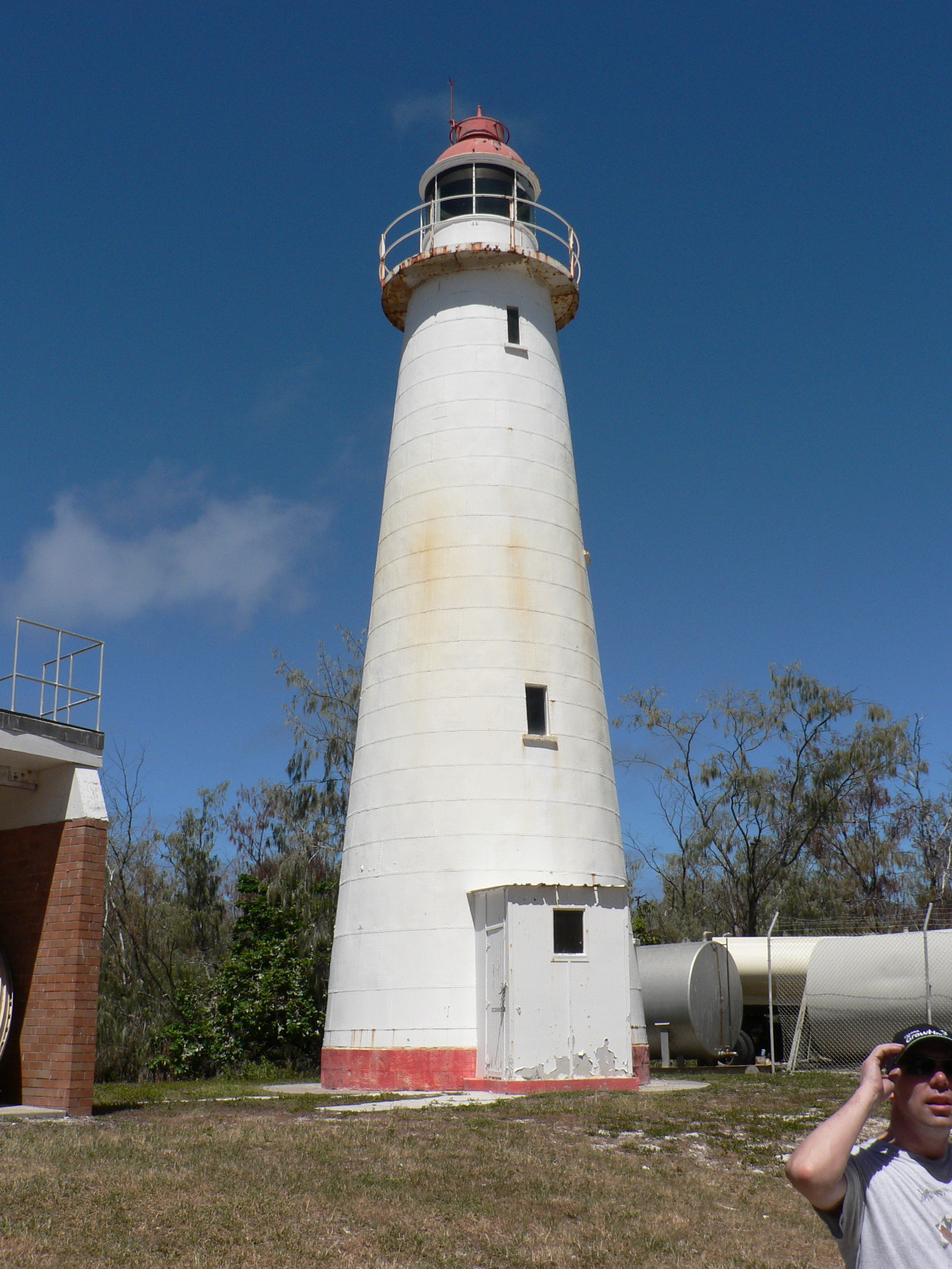 The original but now-disused Lady Elliot Island lighthouse.